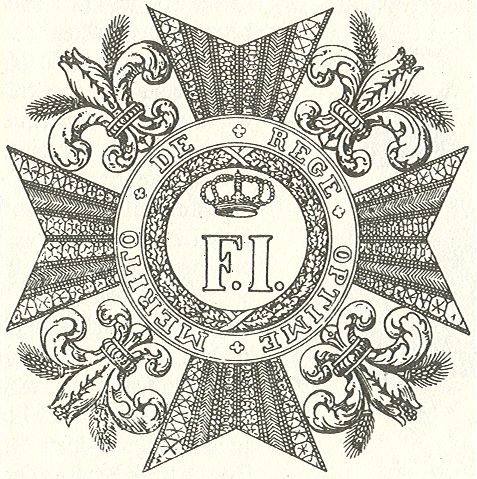 Drawing of the Order of Francis I of the Two Sicilies. Instituted 1829; drawn 1893.